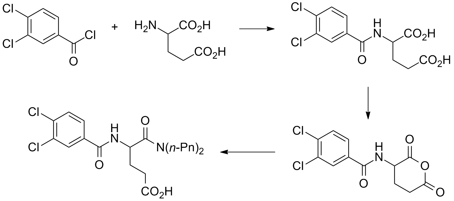 F. Makovec, et al. Eur J. Med. Chem., 21, 9 (1986).